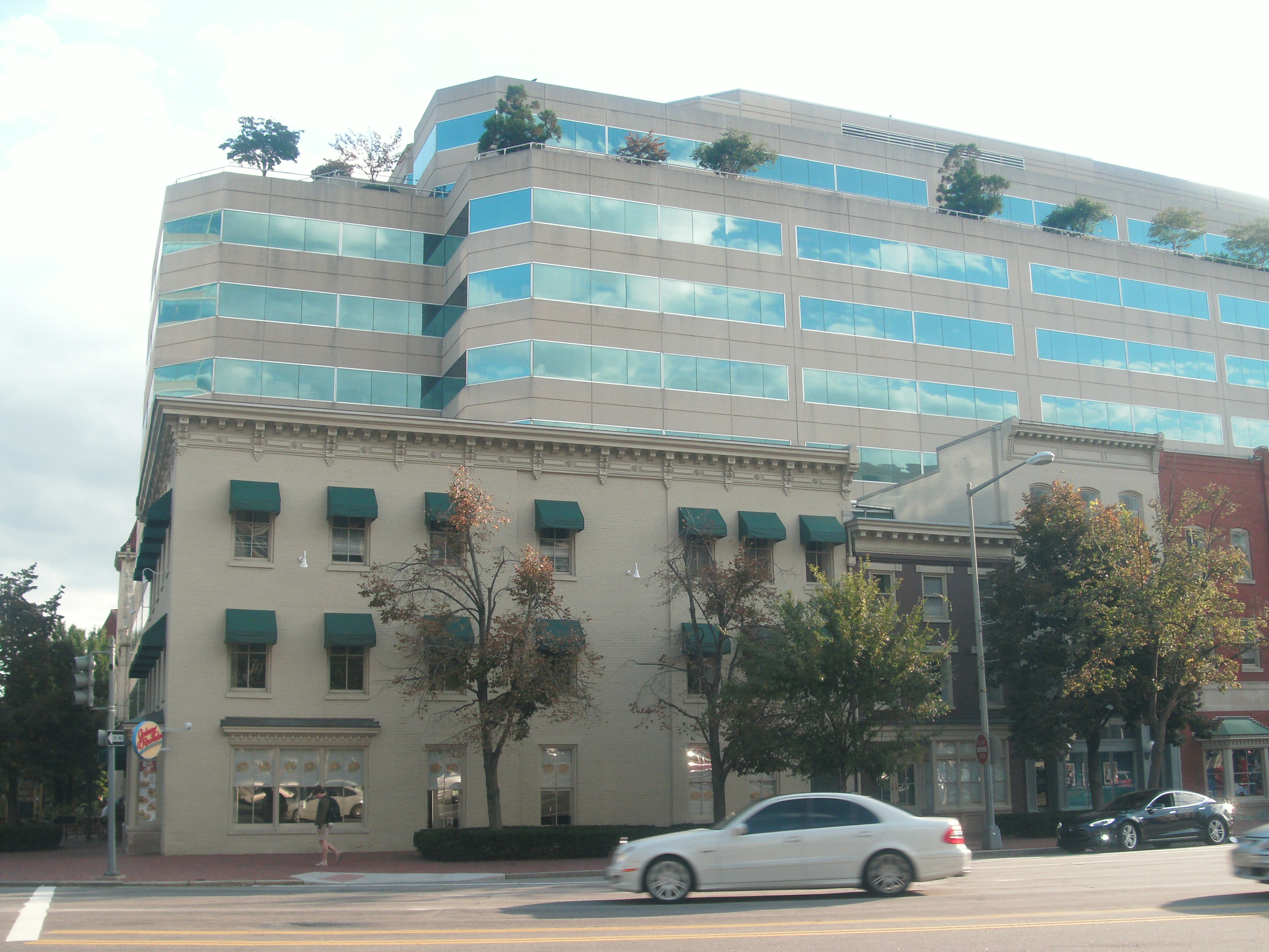 2000 Block of Eye Street, NW, GWU, South side of 2000 block of Eye St., NW. George Washington University